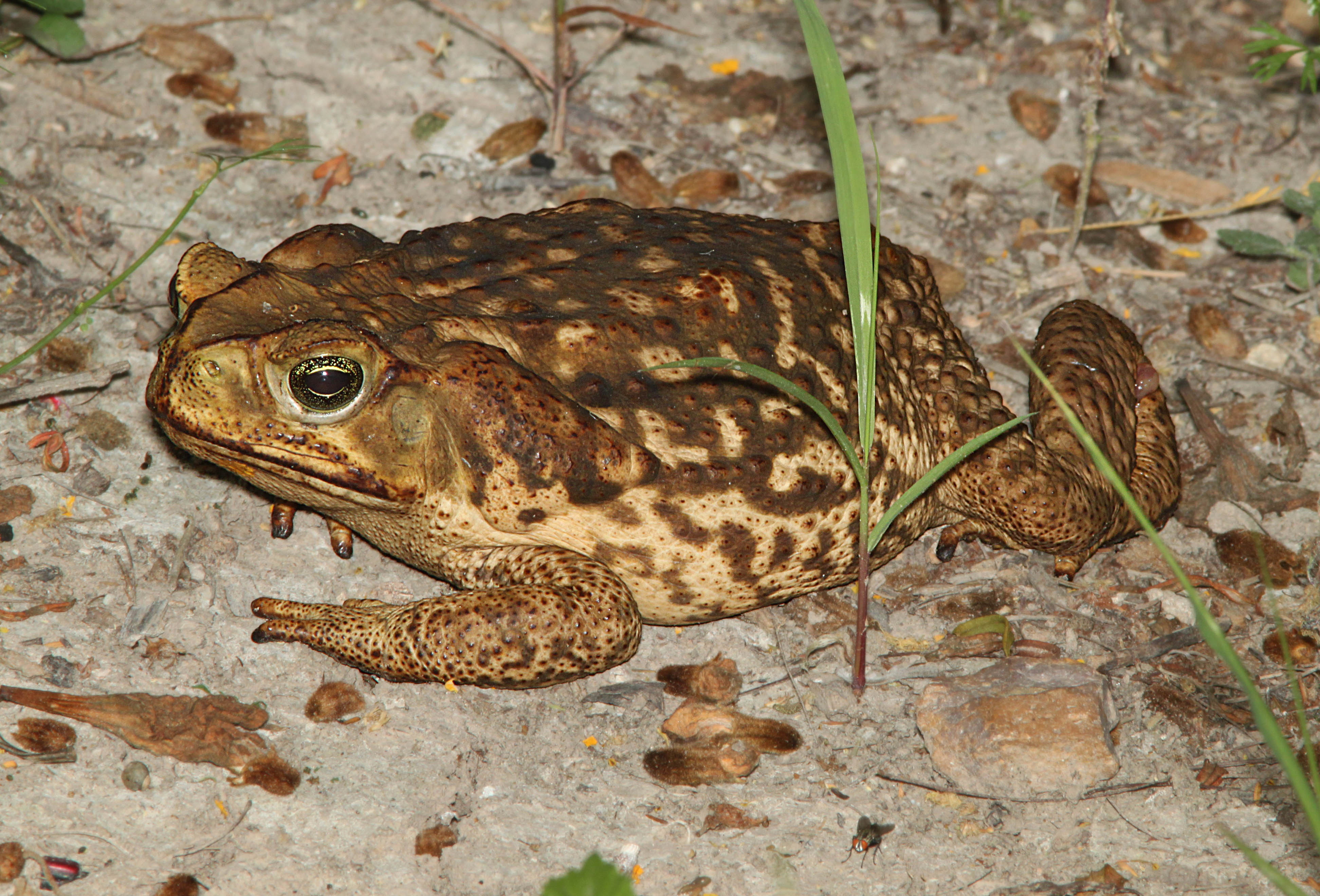 LIZARDS, SNAKES, FROGS, etc TEXAS & SOUTHERN NM BIRDS & STUFF